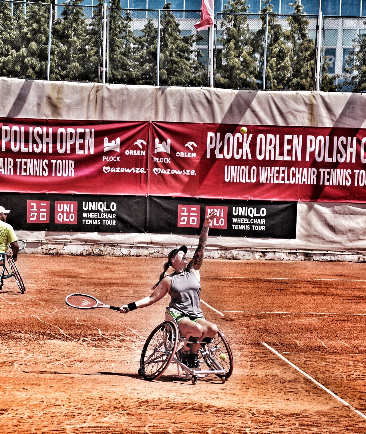 Dutch wheelchairtennis player Michaela Spaanstra